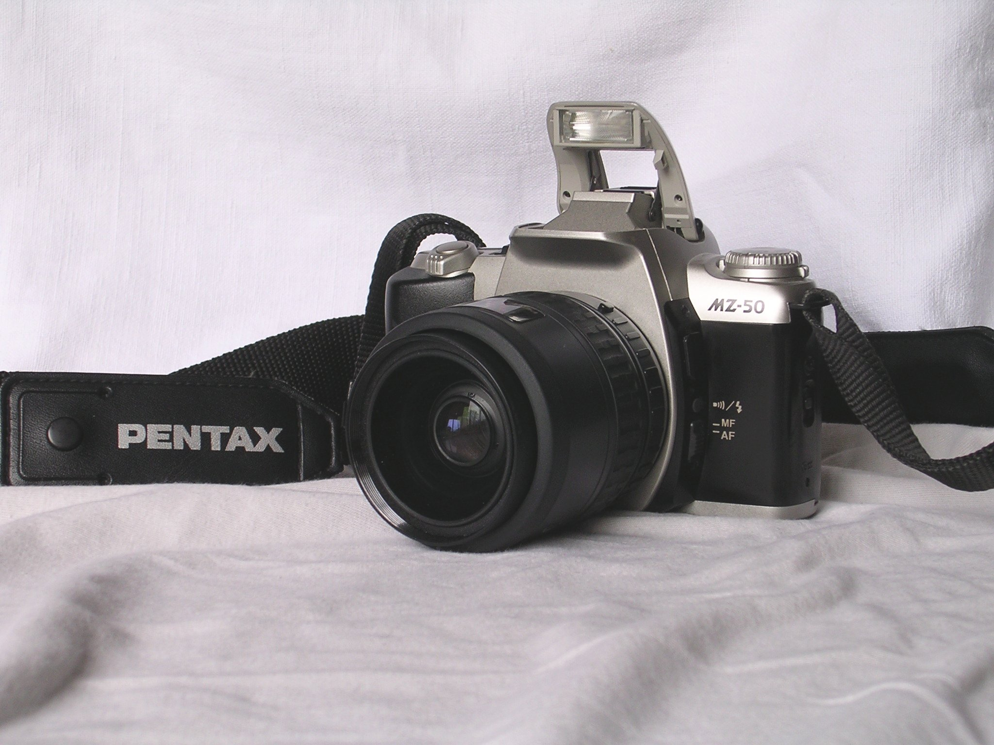 A Pentax MZ-50 SLR camera